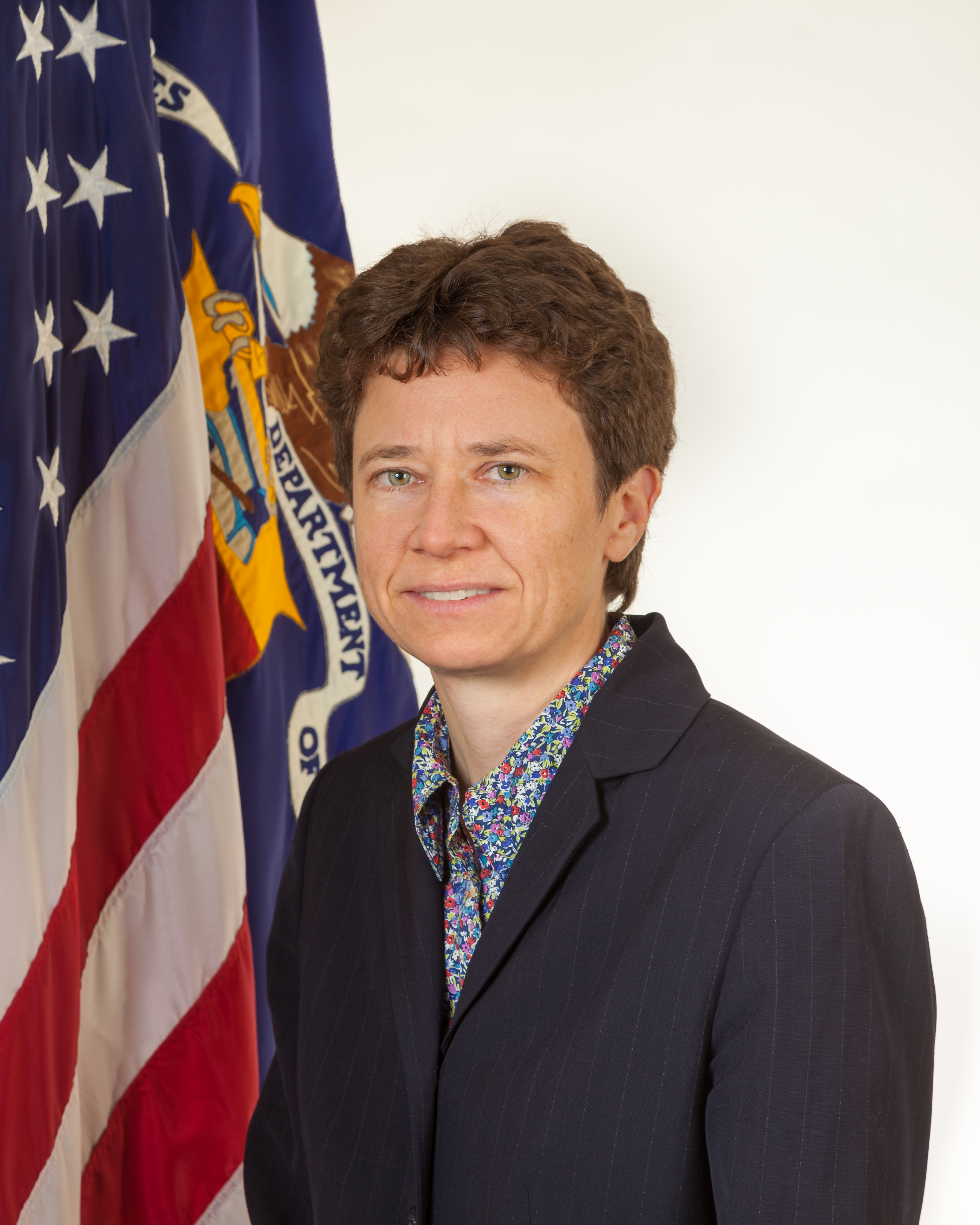 Official portrait of Chief Economist U.S. Department of Labor Jennifer Hunt